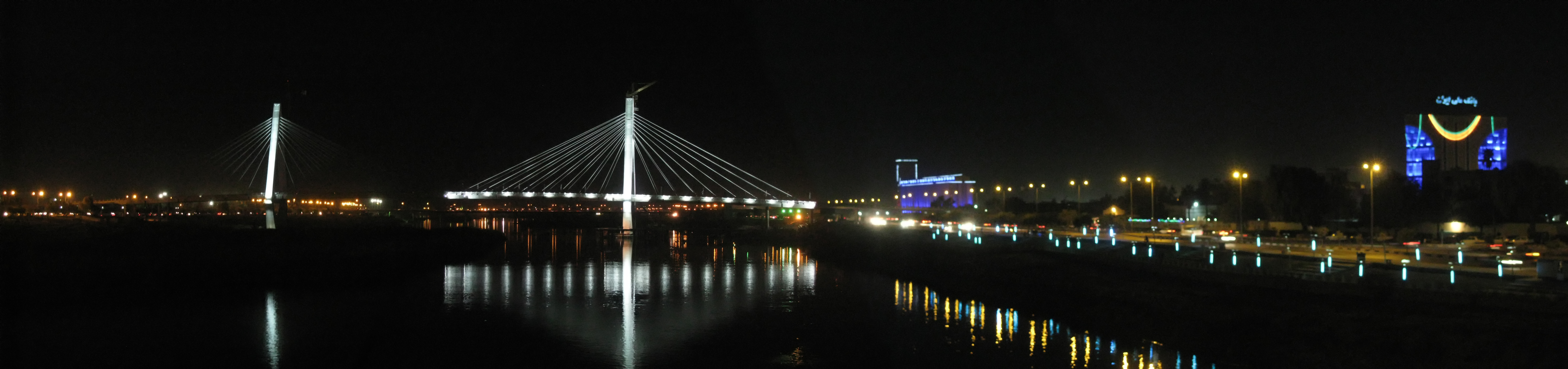 Panoramic view of the ahvaz